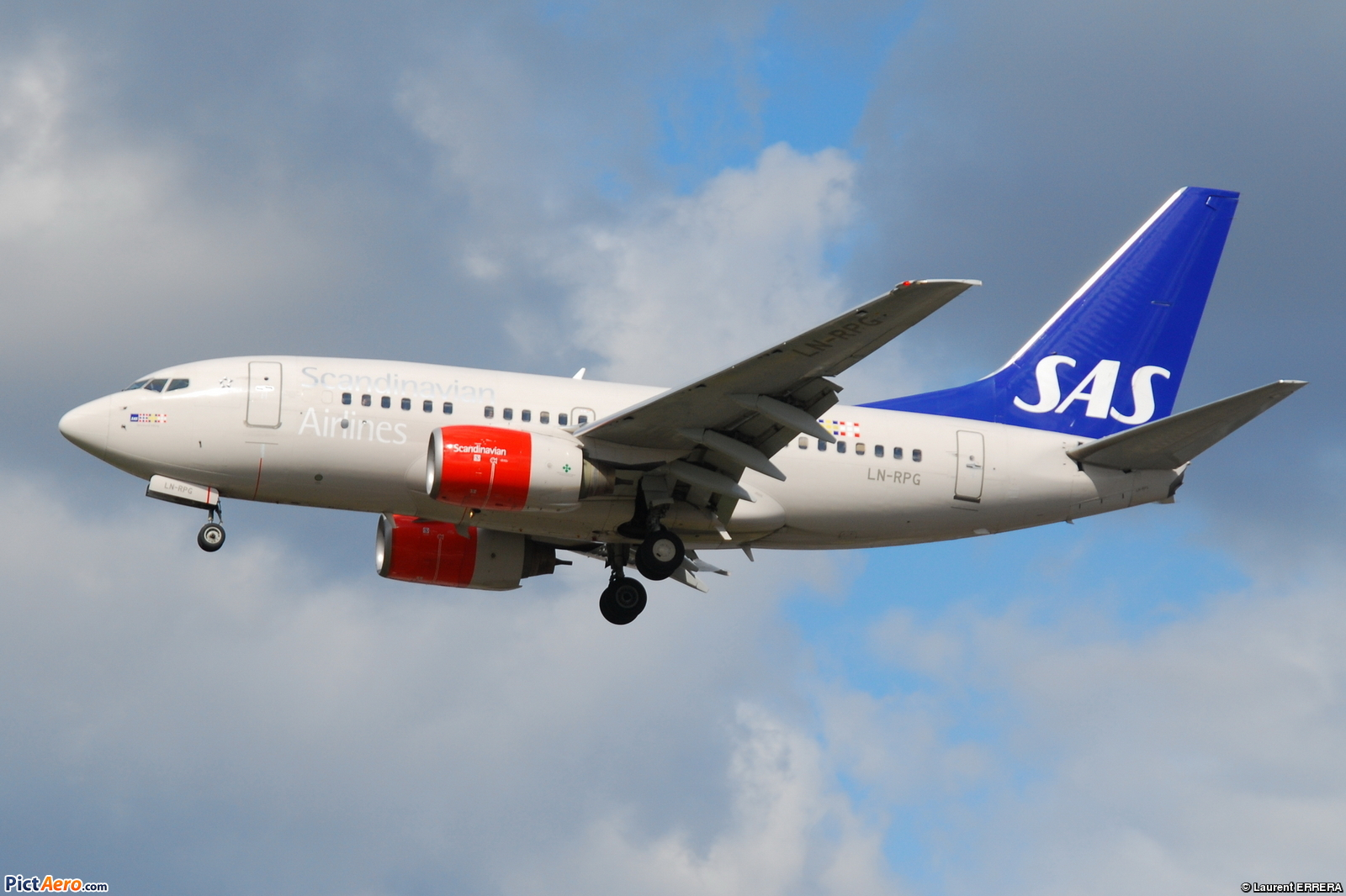 Photo prise à l'aéroport de Londres-Heathrow (EGLL) au Royaume-Uni. Picture take at London-Heathrow Airport (EGLL) in UK.